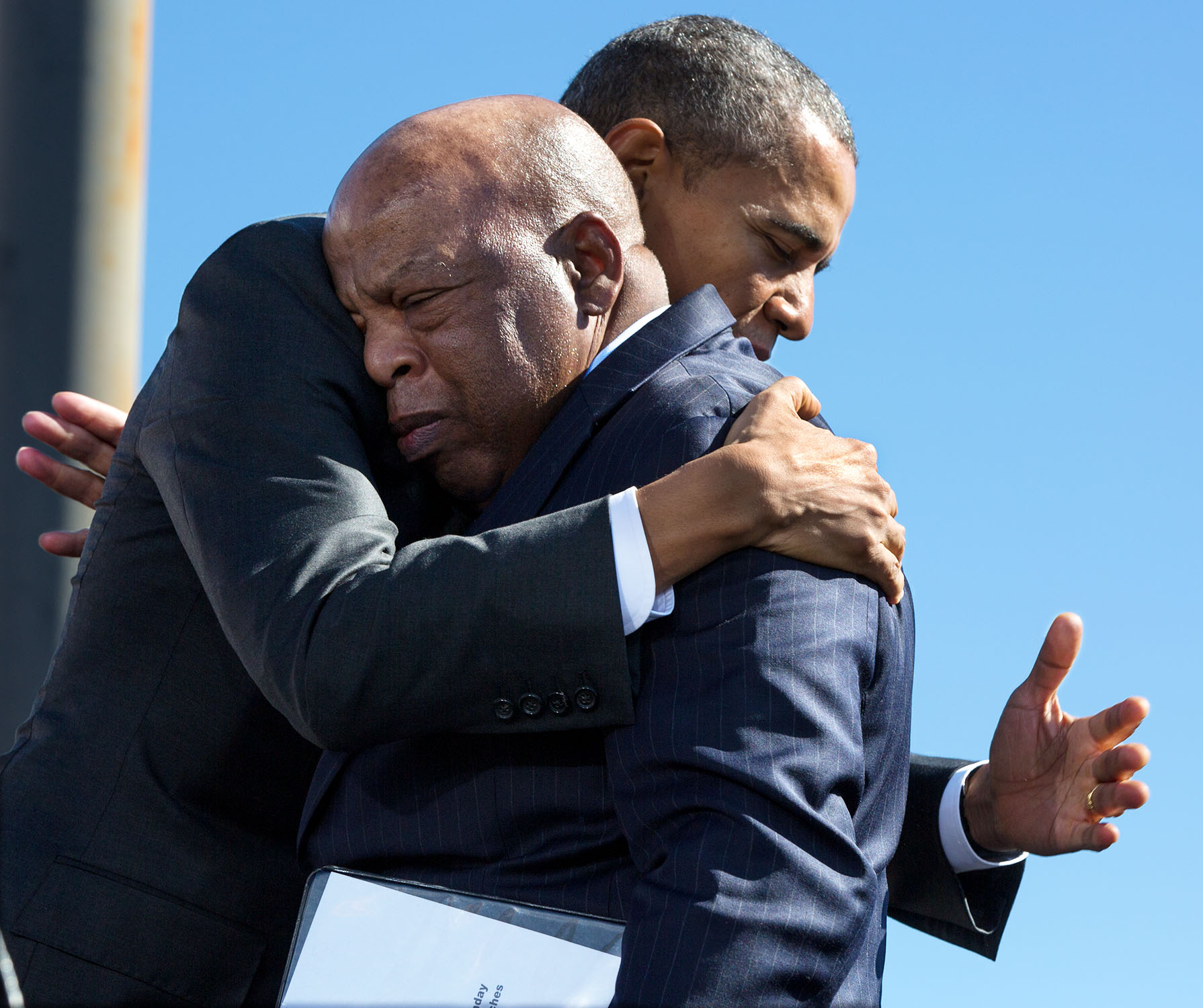 President Barack Obama hugs Rep. John Lewis, D-Ga., after his introduction during the event to commemorate the 50th Anniversary of Bloody Sunday and the Selma to Montgomery civil rights marches, at the Edmund Pettus Bridge in Selma, Ala., March 7, 2015. (Official White House Photo by Pete Souza)